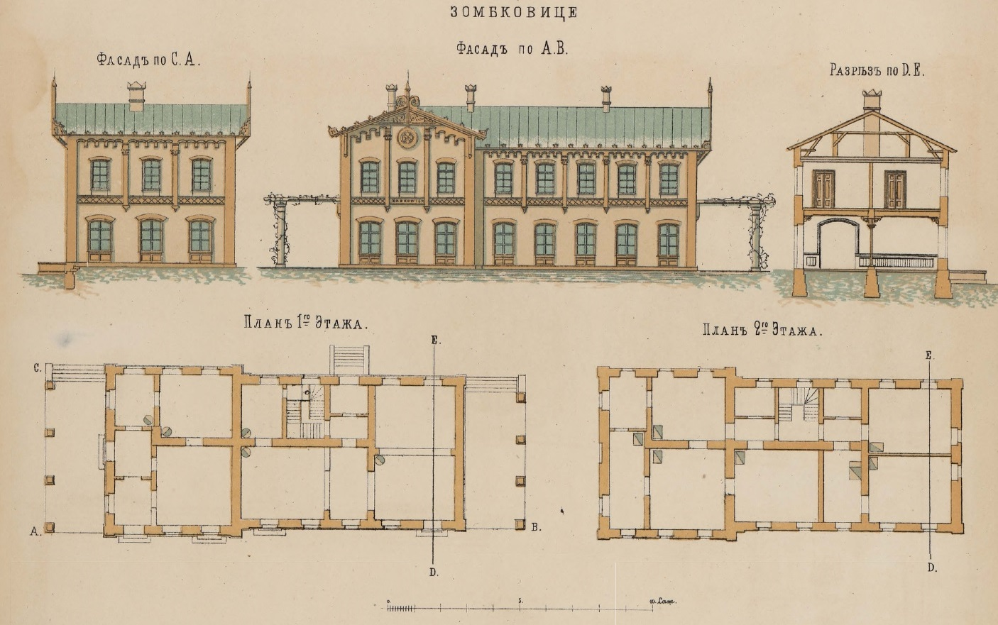 Zombkowice station. Warsaw-Vienn railway. Russian Empire